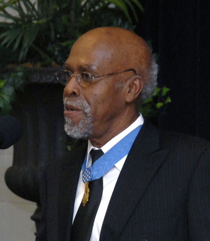 Clarence Sasser, Medal of Honor recipient, speaks at the Living Legends Banquet Museum at the Sheppard Air Force Base Community Center.